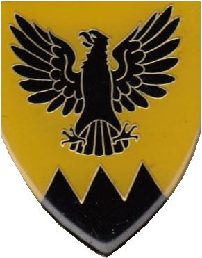 SADF era Commando Calvinia